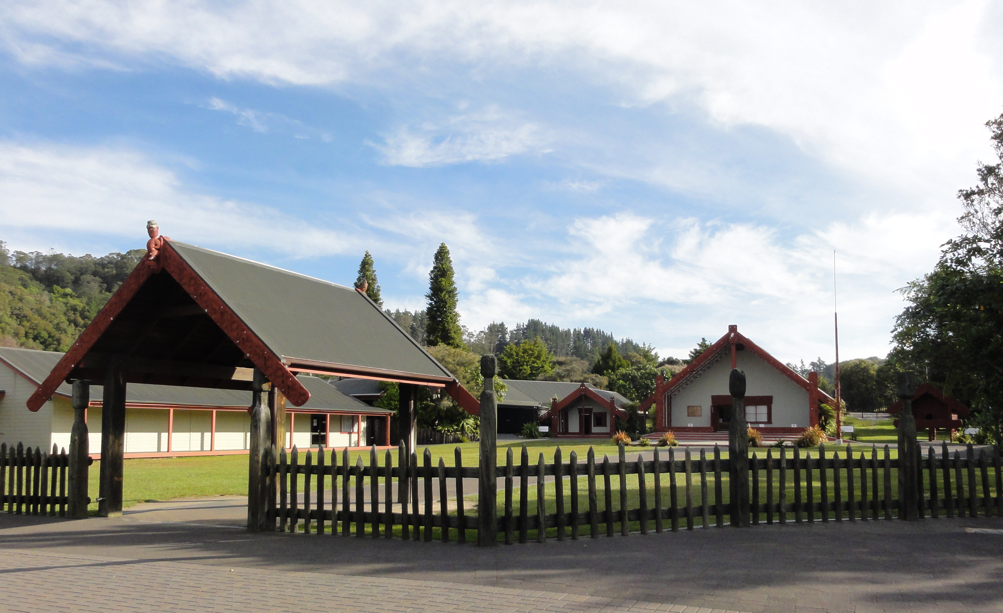 Whakarewarewa marae, Rotorua, New Zealand